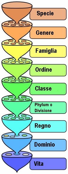 Classification of the biodiversity